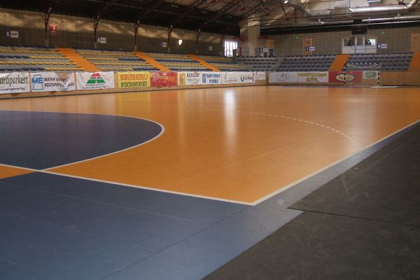 Gyöngyös